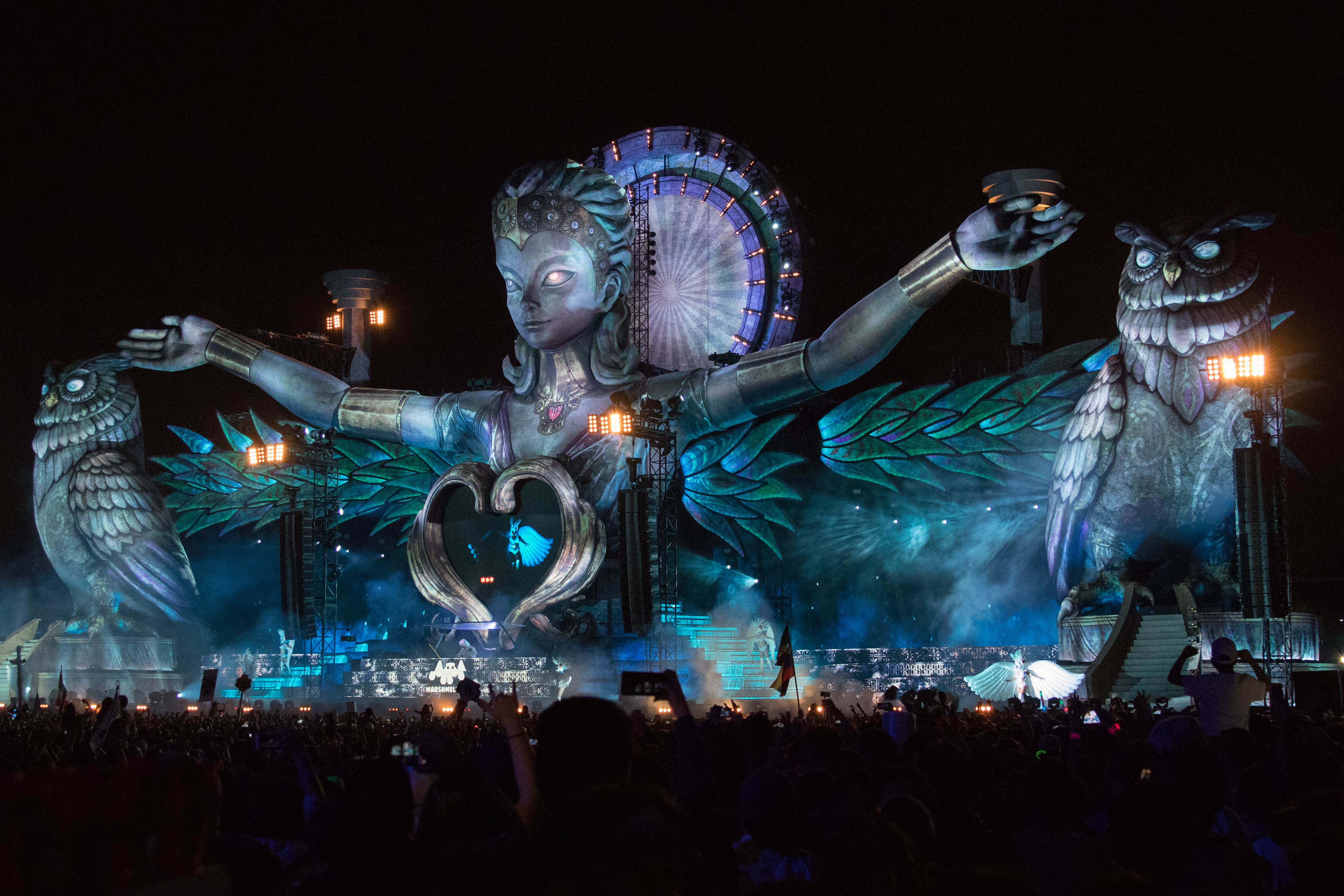 Marshmello playing the mainstage of EDC festival in Mexico City, 2018